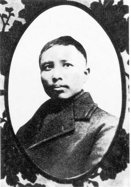 Sun Wu (1879－1939)